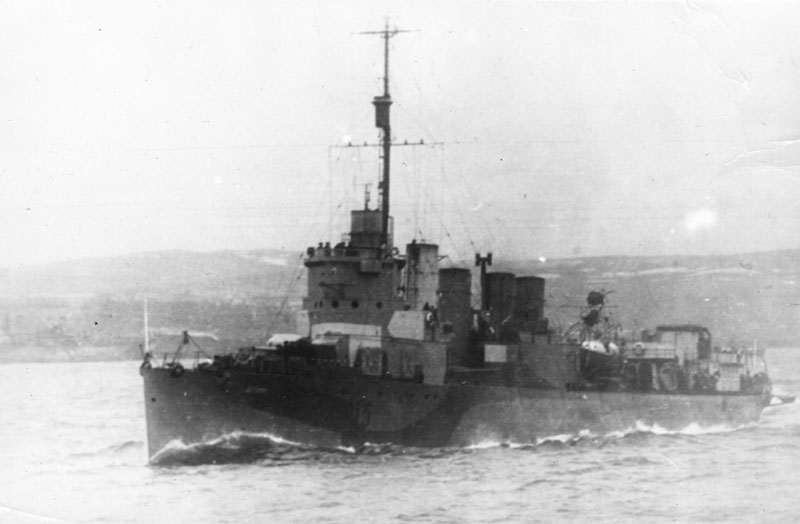 The Soviet destroyer Derzkiy (ex-HMS Chelsea, ex-USS Crowninshield). Undated, location unknown.